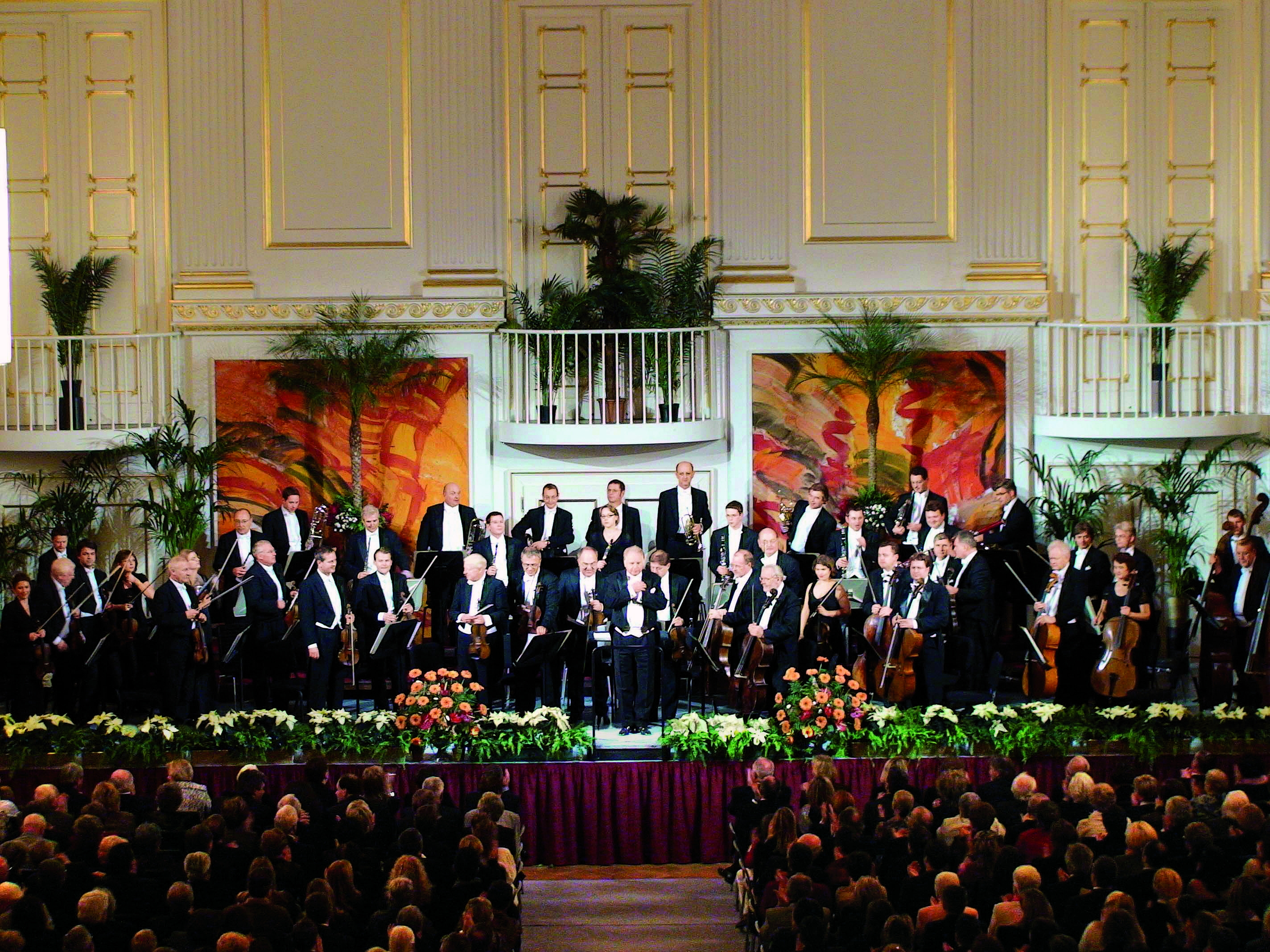 The ensemble of the Vienna Hofburg Orchestra and principal conductor Gert Hofbauer in the Grosser Redoutensaal of Vienna's Hofburg Palace (2008).